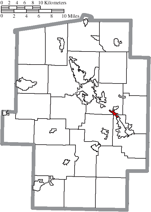 Map of the municipal and township boundaries of Tuscarawas County, Ohio, United States, as of the 2000 census, with the location of the village of Midvale highlighted. Township borders are shown only in unincorporated areas in order to differentiate incorporated and unincorporated areas more clearly.